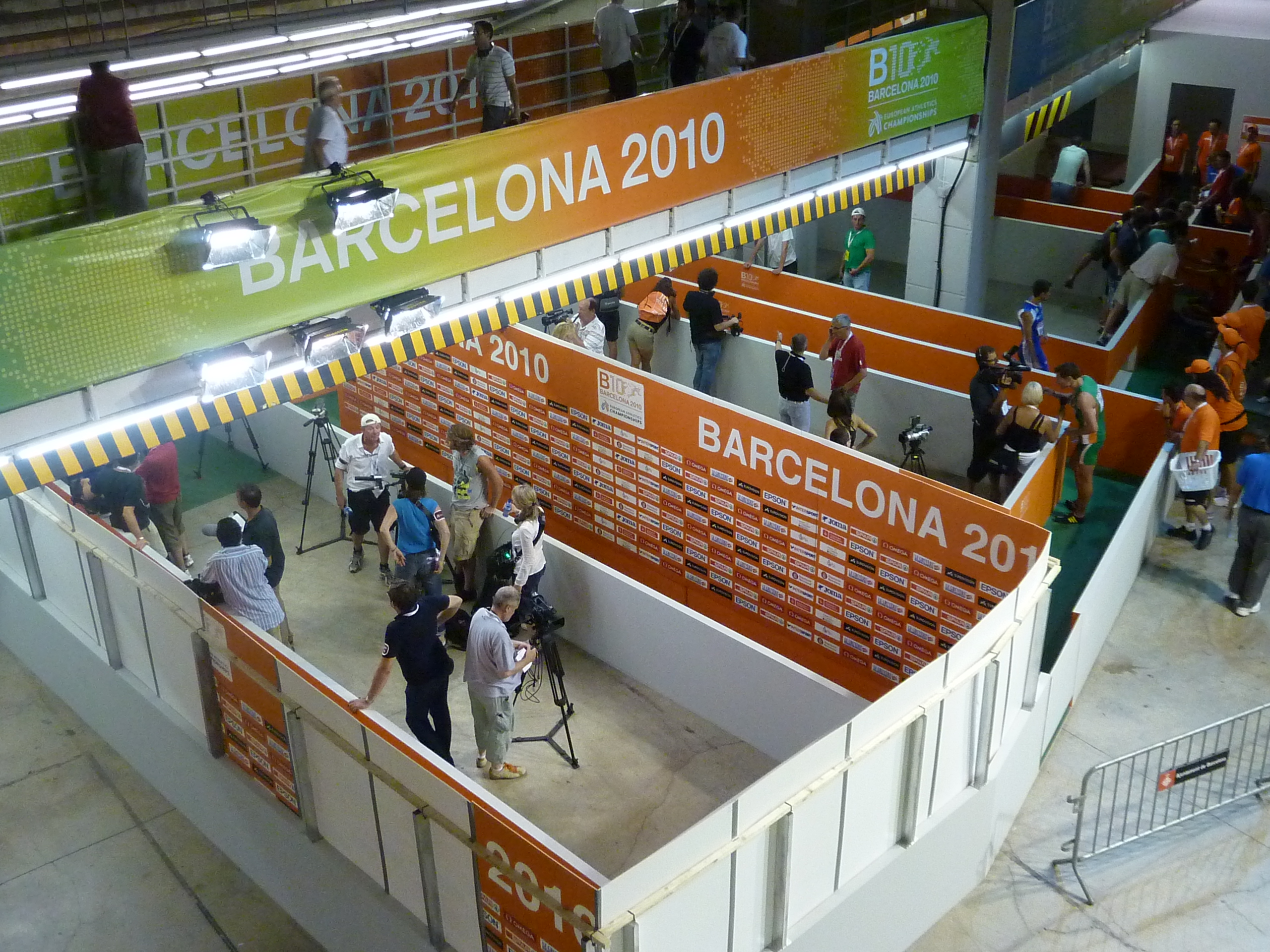 2010 European Championships in Athletics